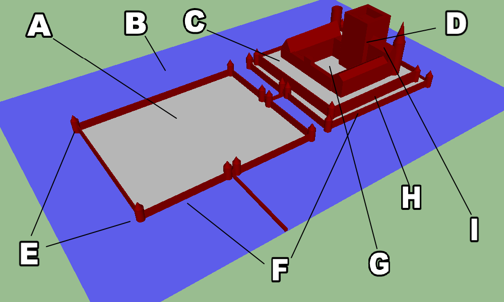 Castle elements